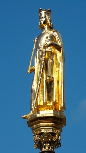 Statue on top of the fontain at the "Binnenhof" in The Hague (Netherlands)